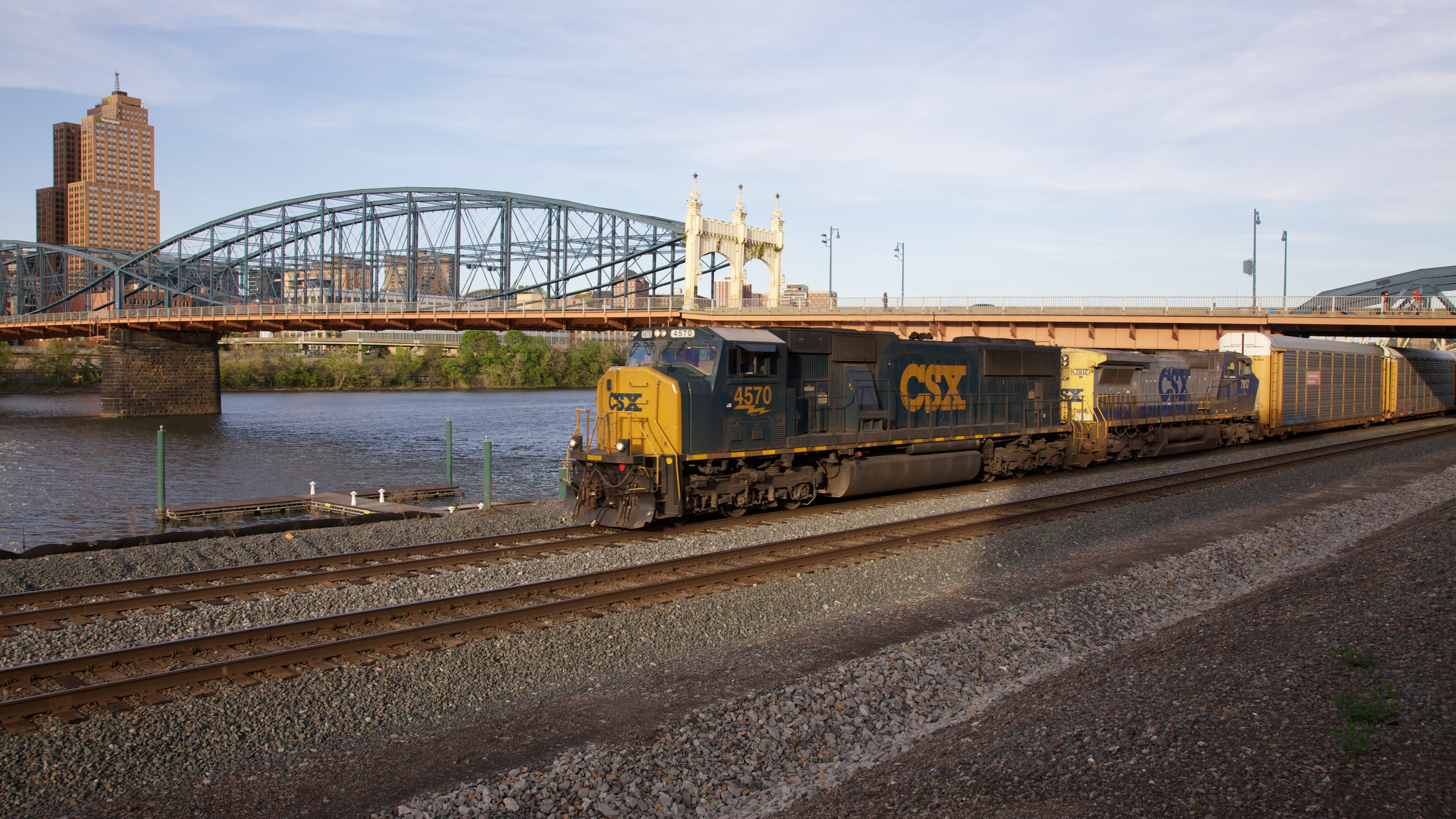 Two CSX locomotives pulling a consist of auto racks. The Smithfield Bridge was designed by Gustav Lindenthal and built between 1881–83.